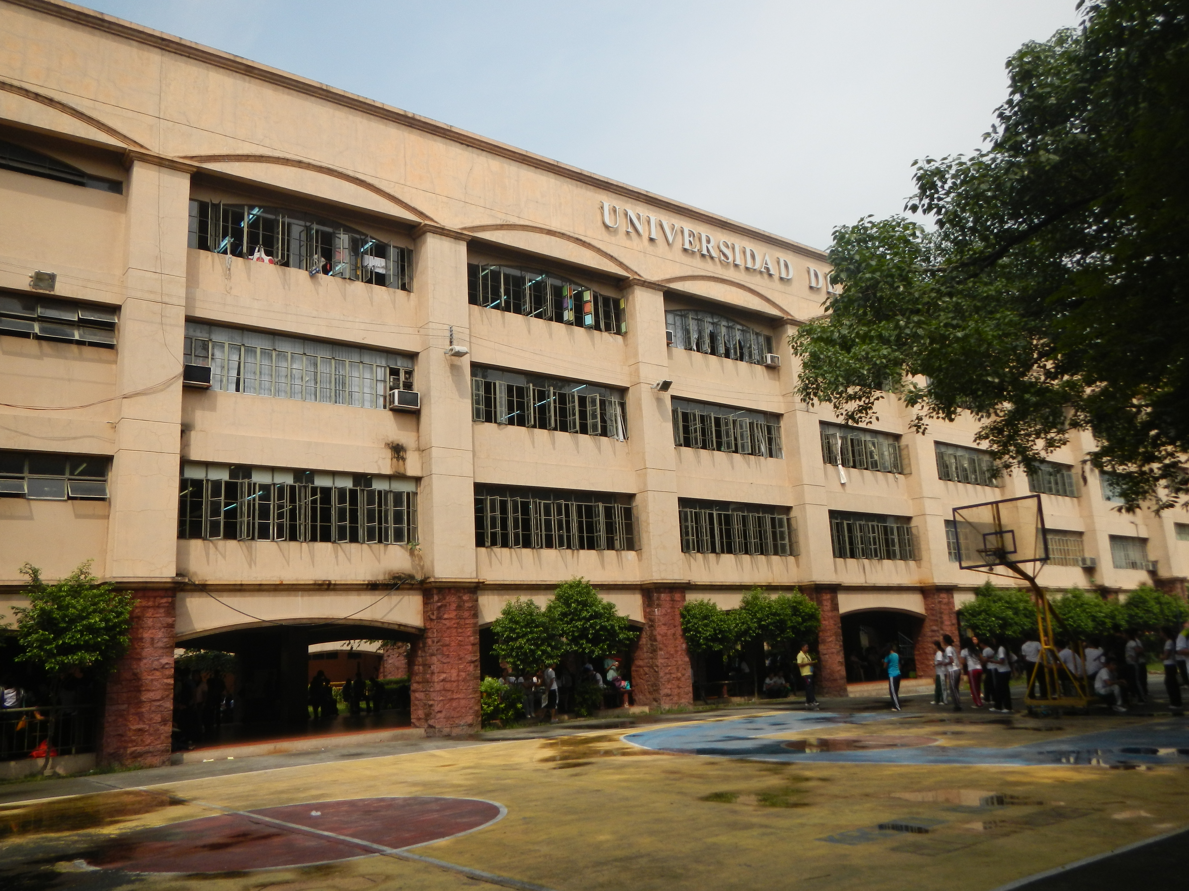 Universidad de Manila [1] [Justice Cecilia Munoz-Palma, Manila [2] - Mayor Antonio Villegas Road - formerly known as City College of Manila (CCM) or Dalubhasaan ng Lungsod ng MayniLa, was founded in 1995 during the term of Manila Mayor Alfredo S. Lim. Coordinates: 14°35'30"N 120°58'53"E[3] The Universidad de Manila (UdM) (formerly known as City College of Manila and also known as Gat Andrés Bonifacio University) is a public university in Manila, Philippines. It is one of the two city-funded universities of Manila. The main campus of Universidad De Manila, which houses the Administration Building of the Division of City Schools-Manila, is at the heart of the Mehan Garden adjacent to the Liwasang Bonifacio, Manila City Library and the Light Rail Transit Central Terminal. Universidad de Manila is located inside the --- Mehan Garden[4] Coordinates: 14°35'32"N 120°58'51"E[5] is an open space in Manila, Philippines. It was established in 1858 by the Spanish colonial authorities as a botanical garden, called the Jardín Botánico, outside the walled city. The Garden is the open space off Liwasang Bonifacio (across the Philippine Post Office Main Building), bounded by Taft Avenue, LRT Central Terminal, the Metropolitan Theater, and Manila City Hall. Inside the Garden are structures such as the Lawton Park n' Ride building and the Universidad de Manila.[6] Statue of Sebastian Vidal[7] by Enric Clarasó in the botanical garden. Until the 1960s, the Mehan Garden was a functioning park that was open to people until neglect slowly crept in and decay finally killed the place. [8] Mehan Gardens is near Padre Burgos.